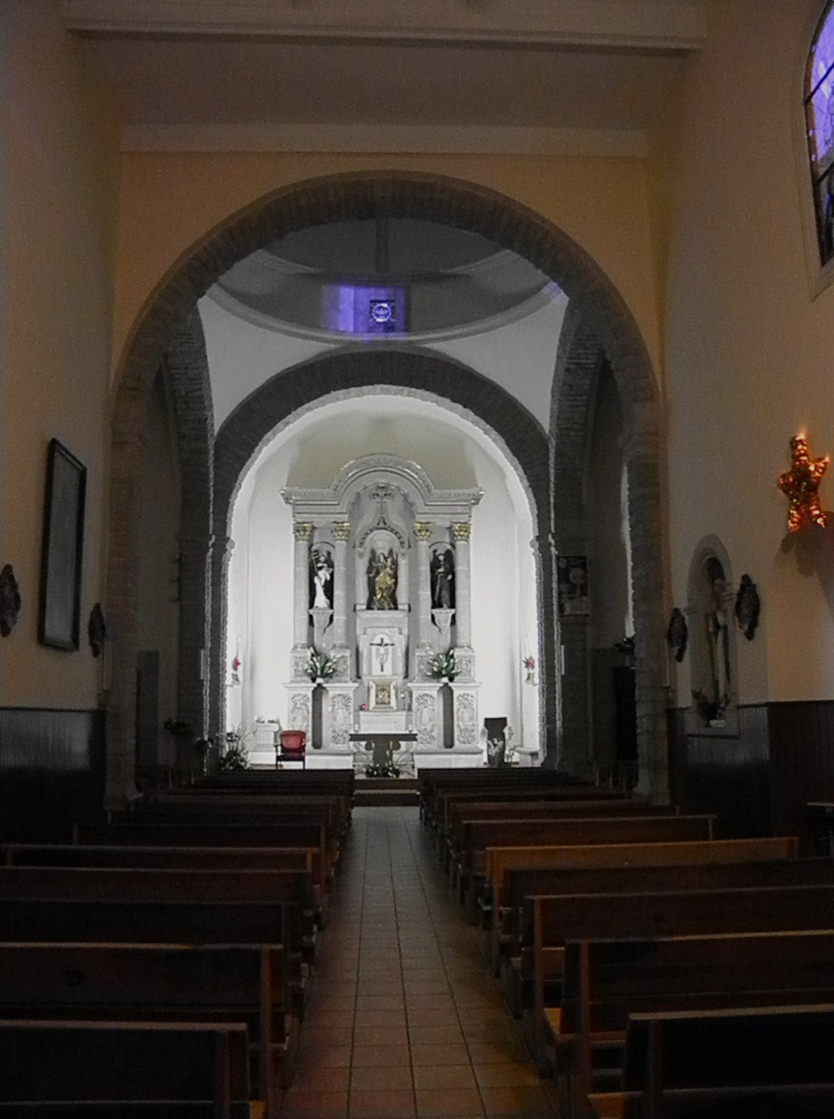 San Francisco Temple, Chihuahua, Chih, Nave